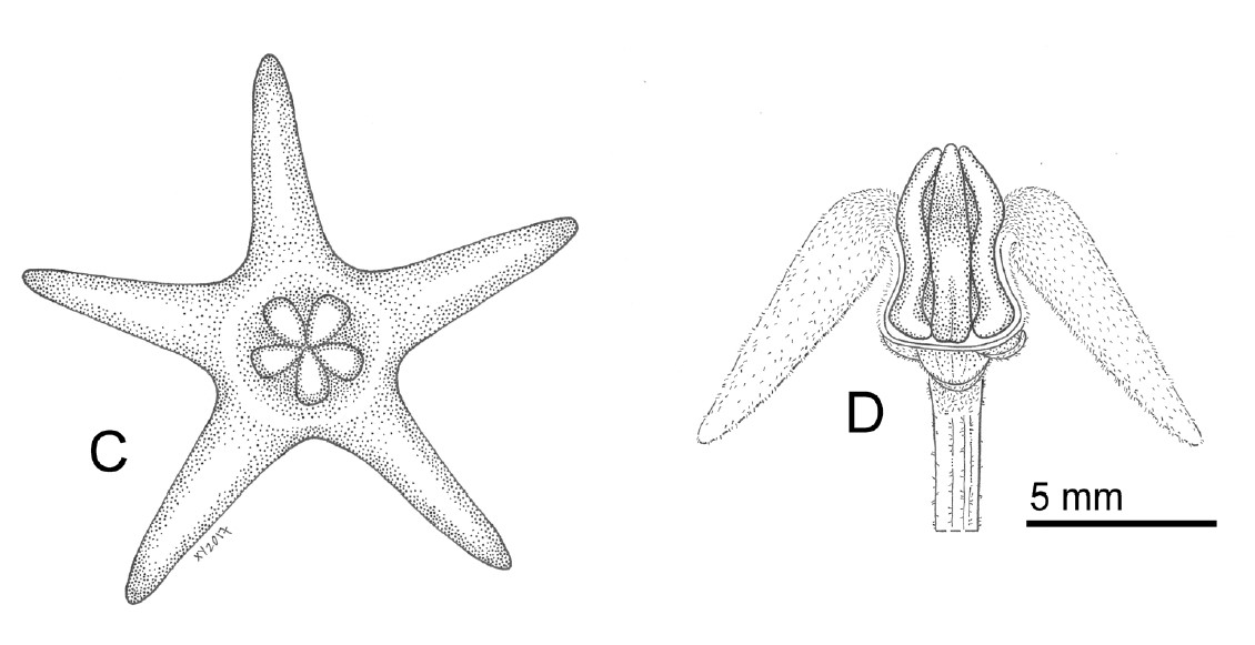 Hoya solokensis S.Rahayu & Rodda 2019, Asclepiadoideae, Apocynaceae, from Rahayu & Rodda (2019: Fig. 1 C D)